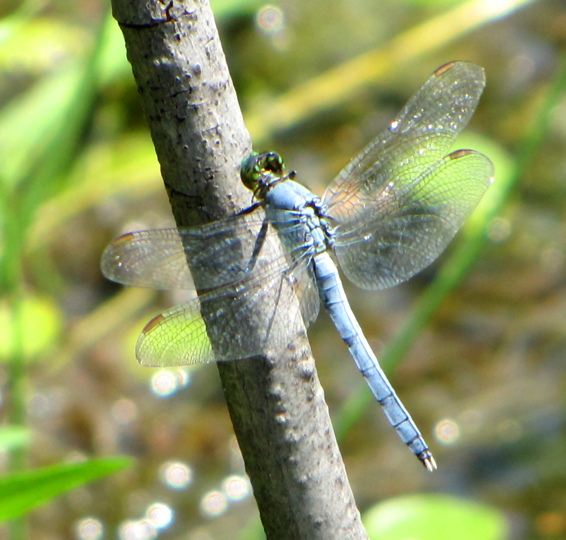 Eastern Pondhawk (Erythemis simplicicollis), male, Mer Bleue Conservation Area, Ottawa, Ontario